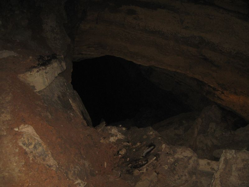 Natural Bridge Cavern near San Antonio Texas. Grendel's Canyon.